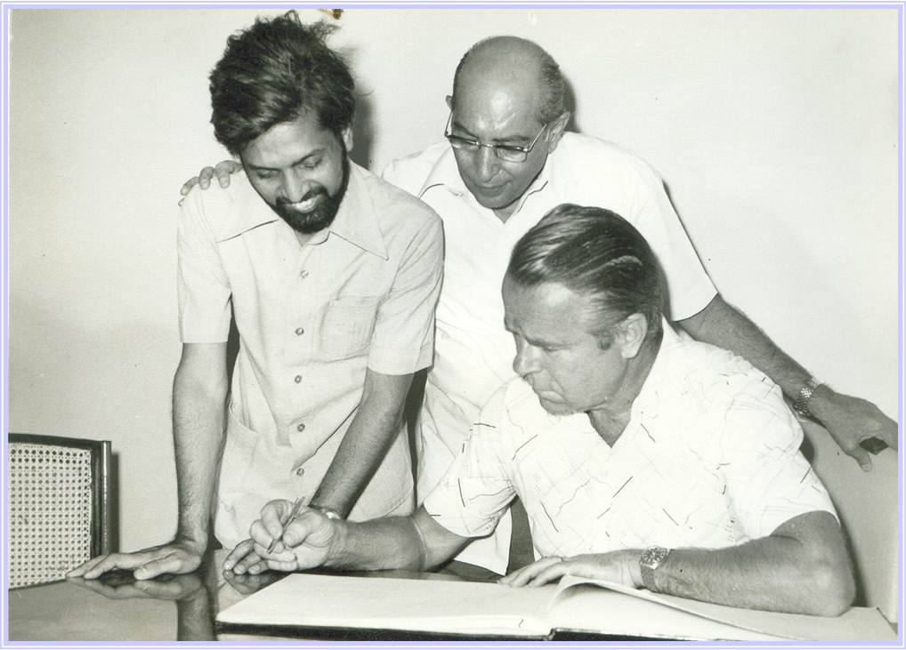 1976 Tega becomes licensee of Skega